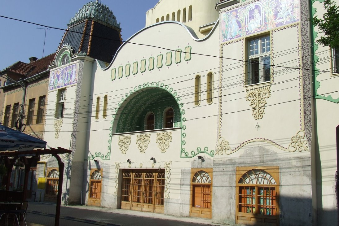 Image of Deva, Romania